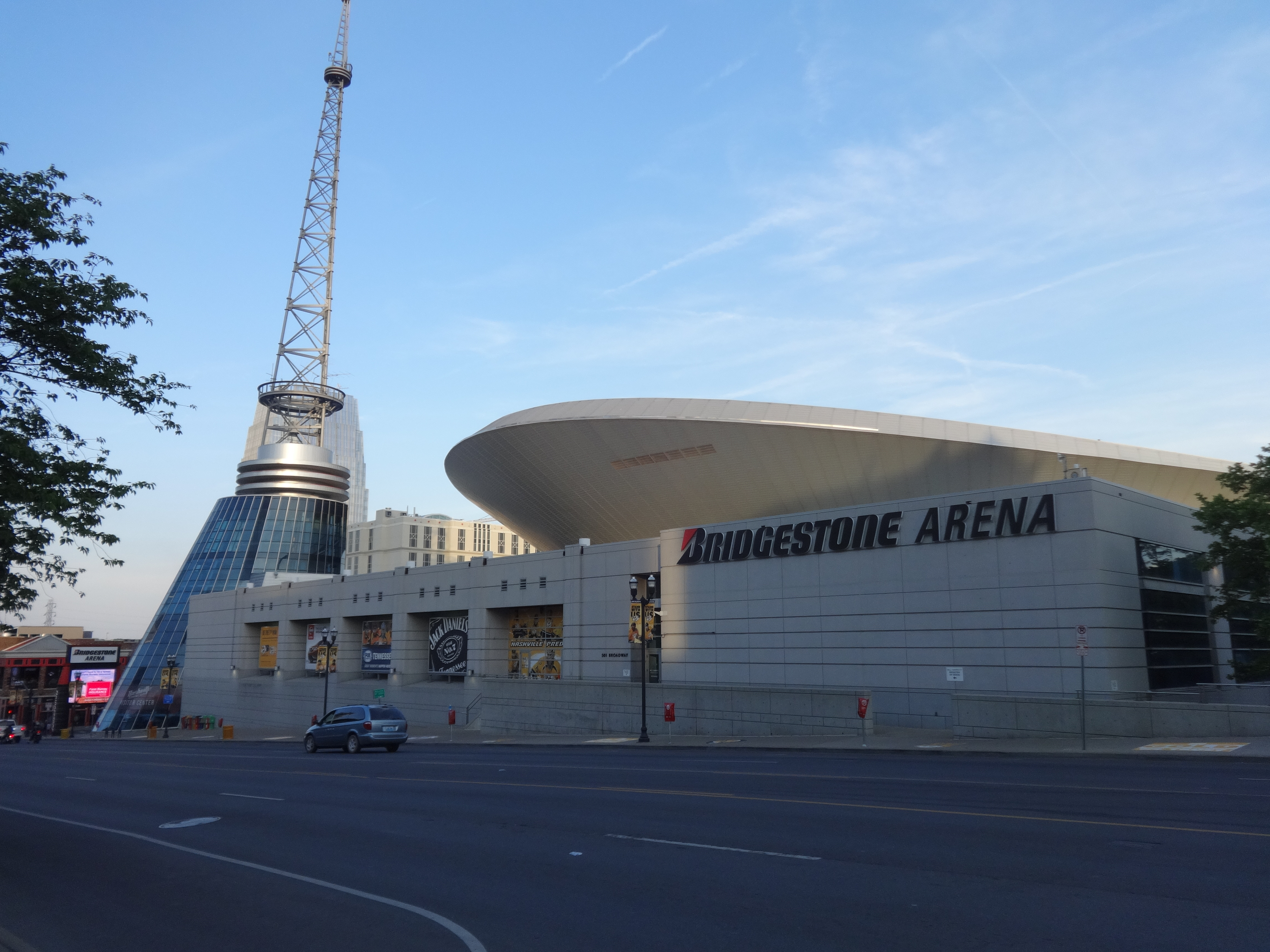 Bridgestone Arena, Nashville, Davidson County, Tennessee